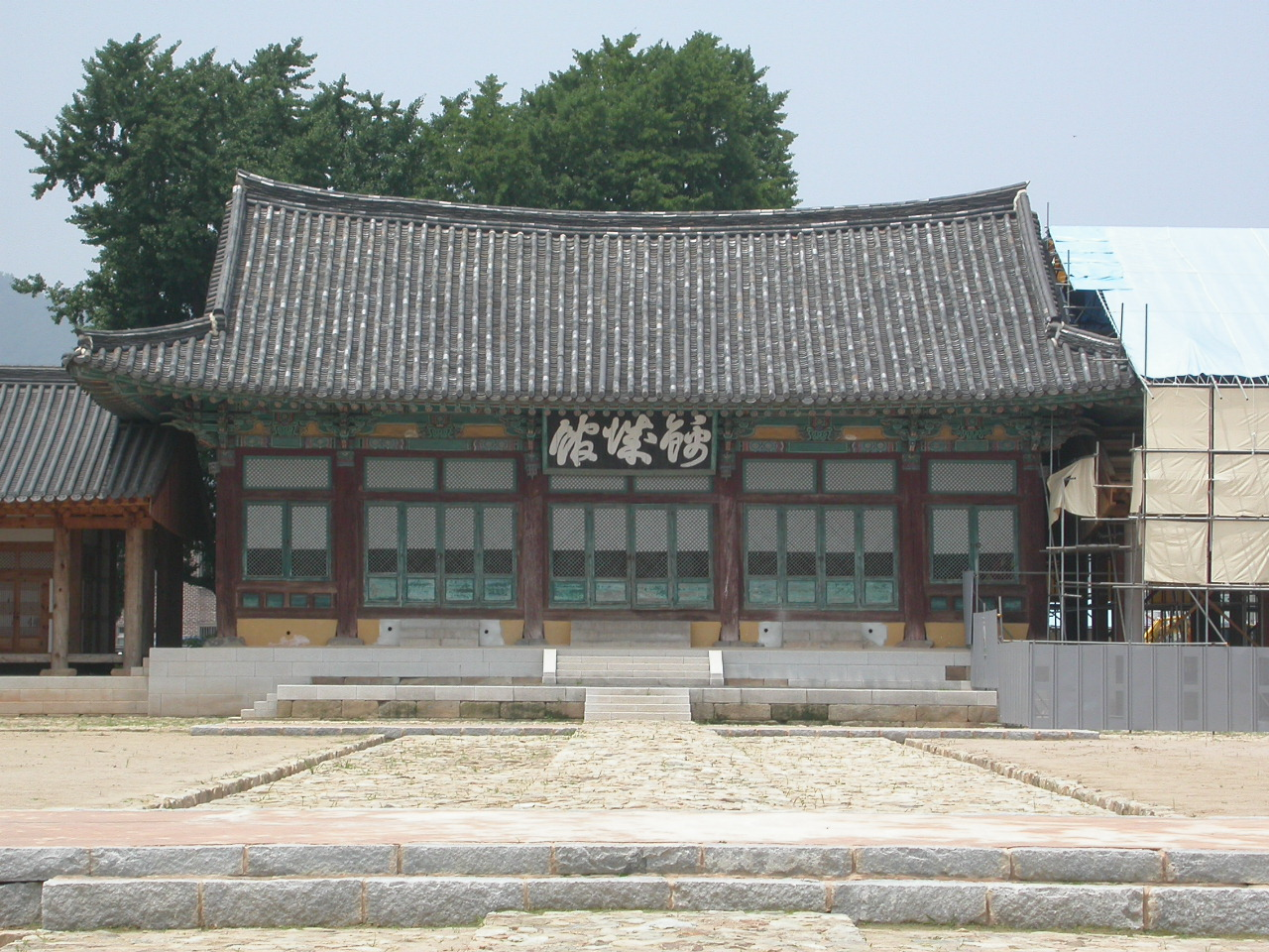 Najumok